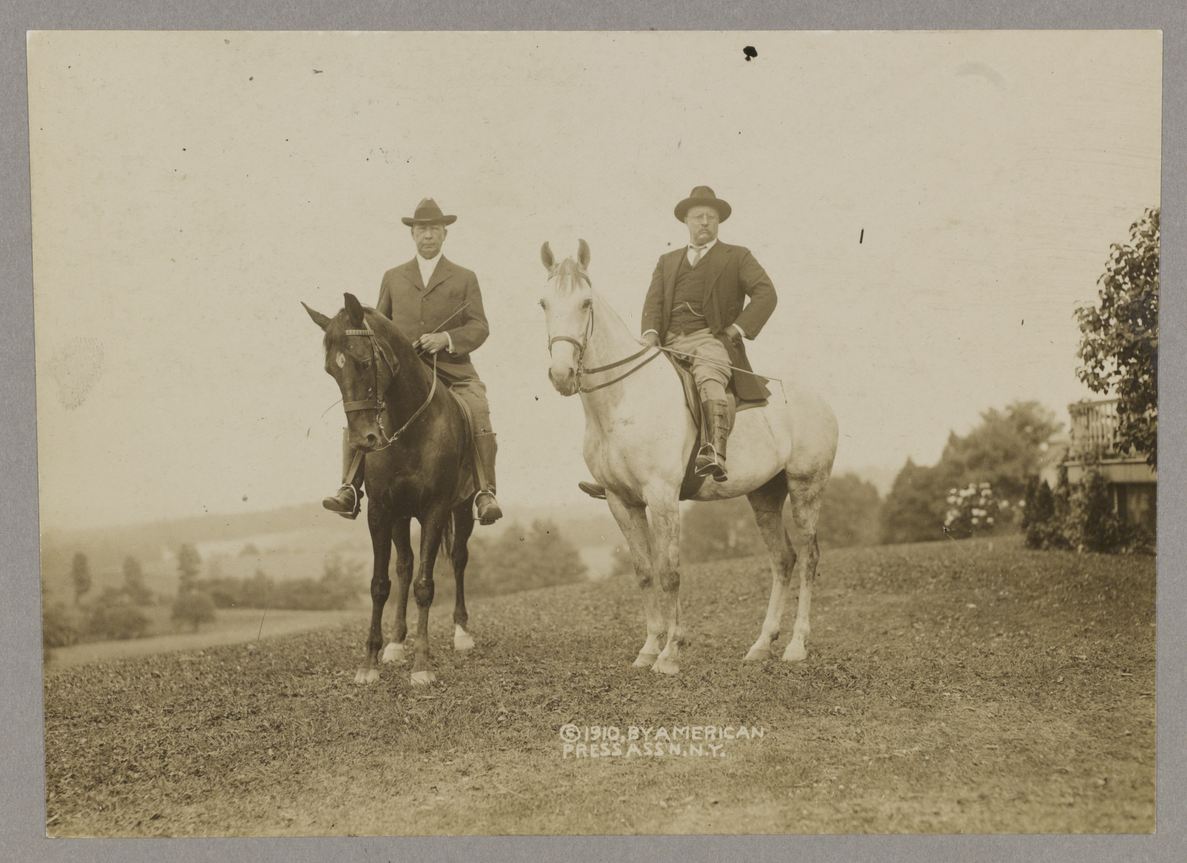 Title: Theodore Roosevelt and his brother in law, Douglas Robinson, on horse back Abstract/medium: 1 photographic print.